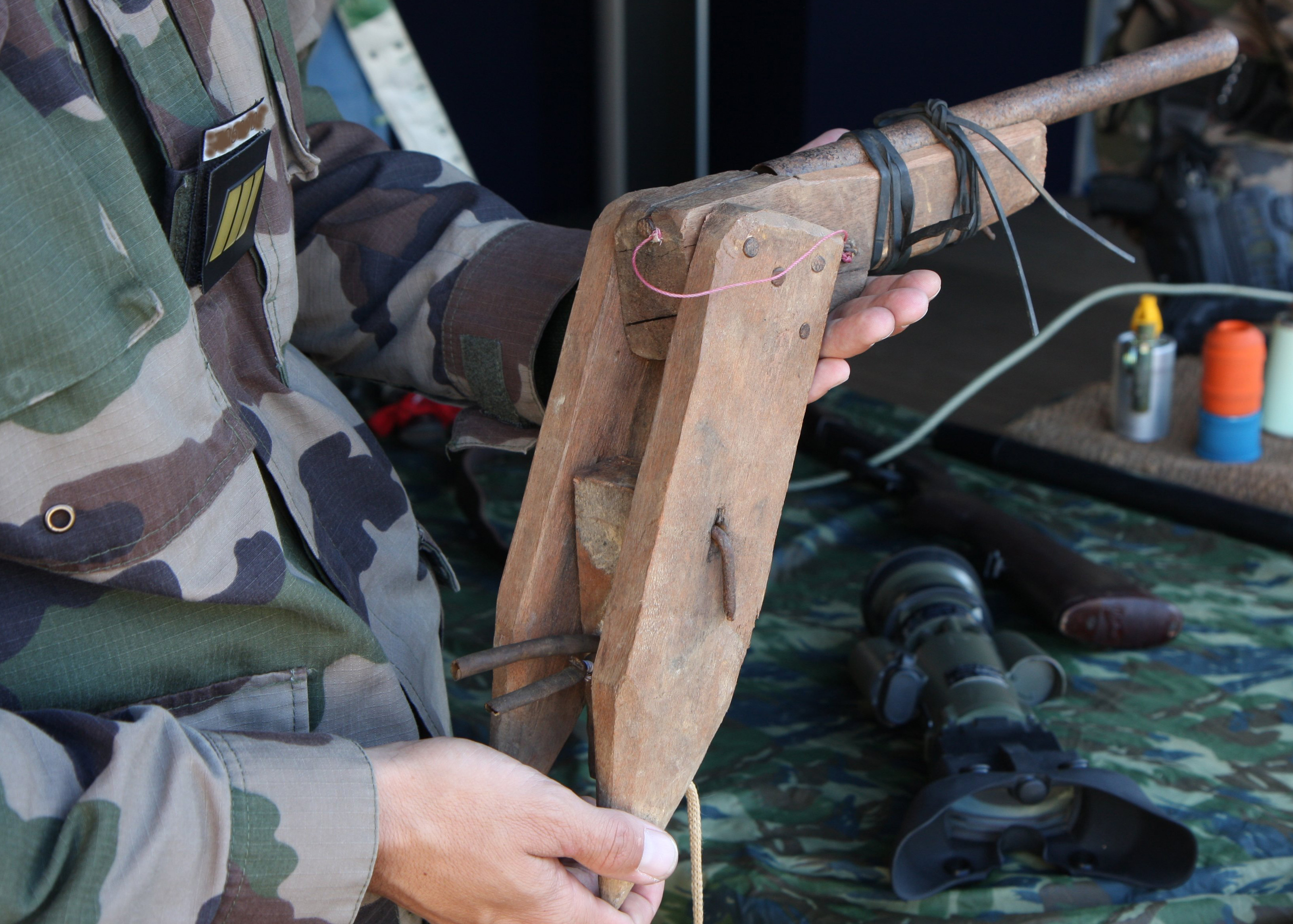 Handmade weapon captured from illegal gold-diggers by the French Gendarmerie in French Guyana